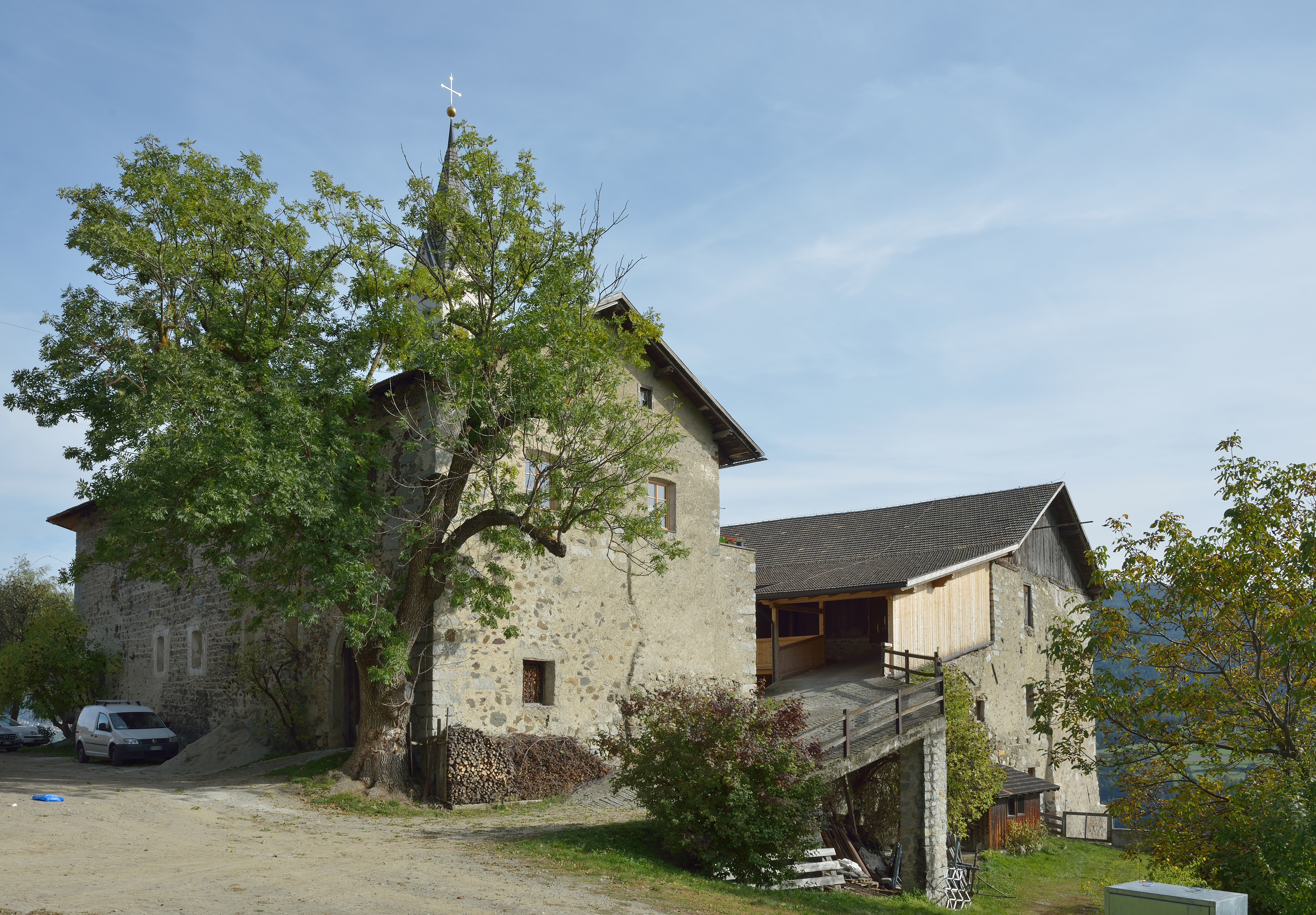 Manor "Gravetsch", northwestern view, in Villanders